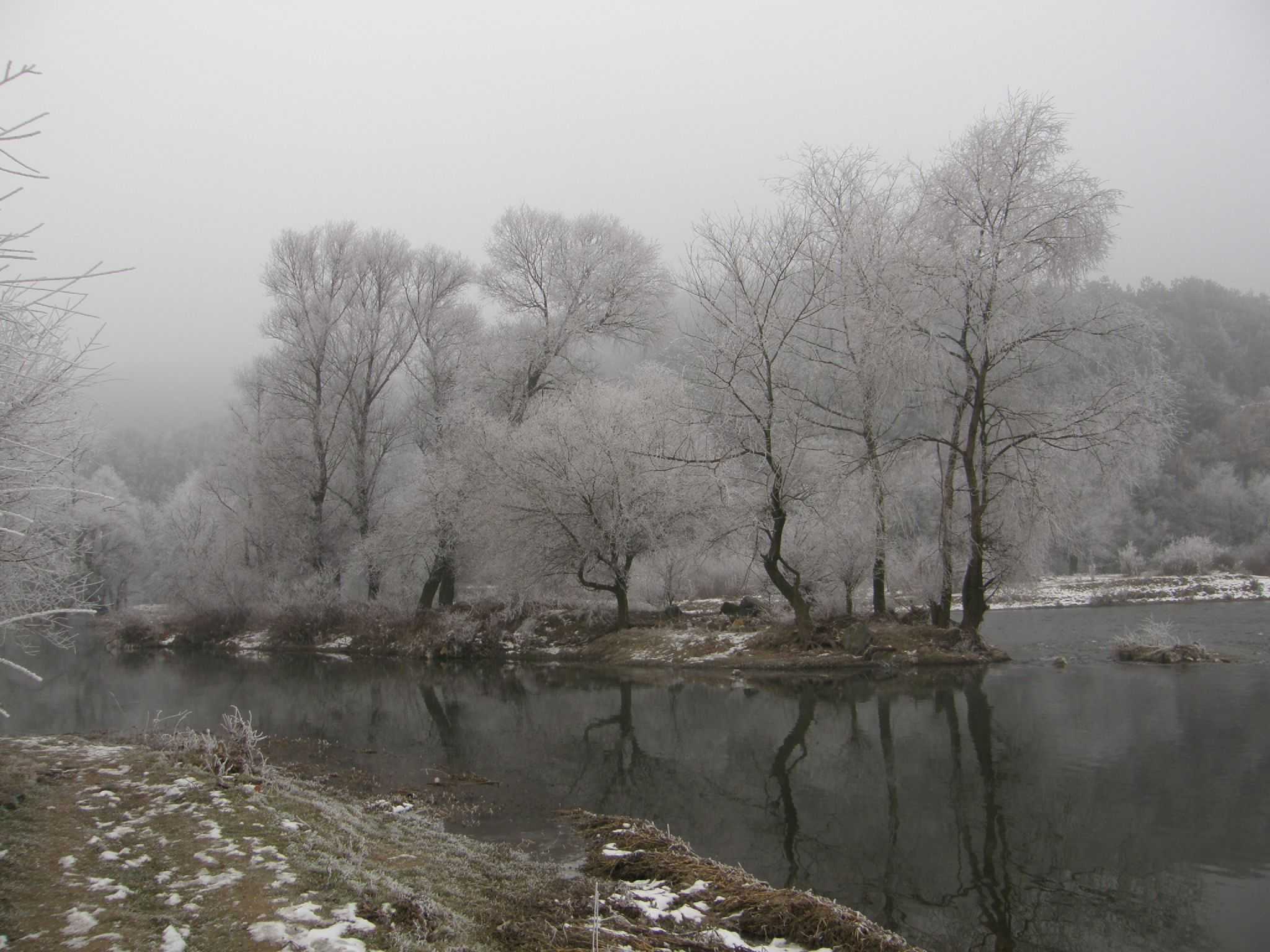 Struma River in Winter. Photo taken at Ribarnika Area of Blagoevgrad, Bulgaria on 11.01.2008